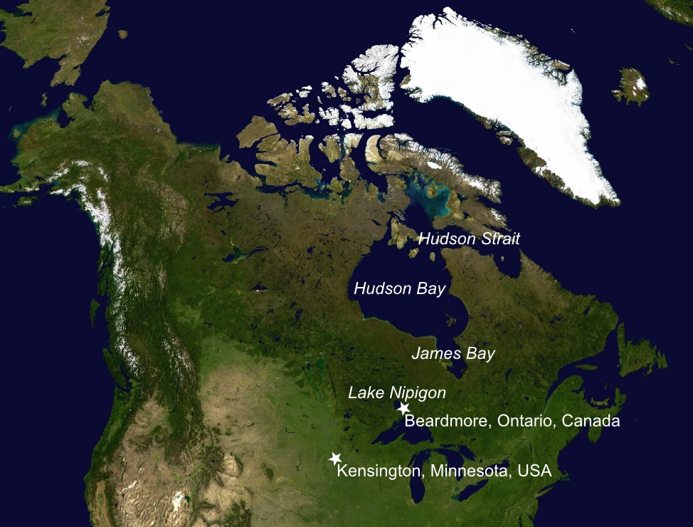 A map illustrating the location where the Beardmore Relics and the Kensington Runestone were 'discovered'. Both finds were considered locally to be evidence of Norse exploration in North America—however, neither finds are taken seriously by academics. The locations of Hudson Strait, Hudson Bay, James Bay, and Lake Nipigon are also shown. I utilized the following file: File:North America satellite orthographic.jpg, which was created by NASA, and uploaded by User:Ghalas. I used Inkscape and GIMP to created this image—both programs are free, cross-platform, graphics editors.